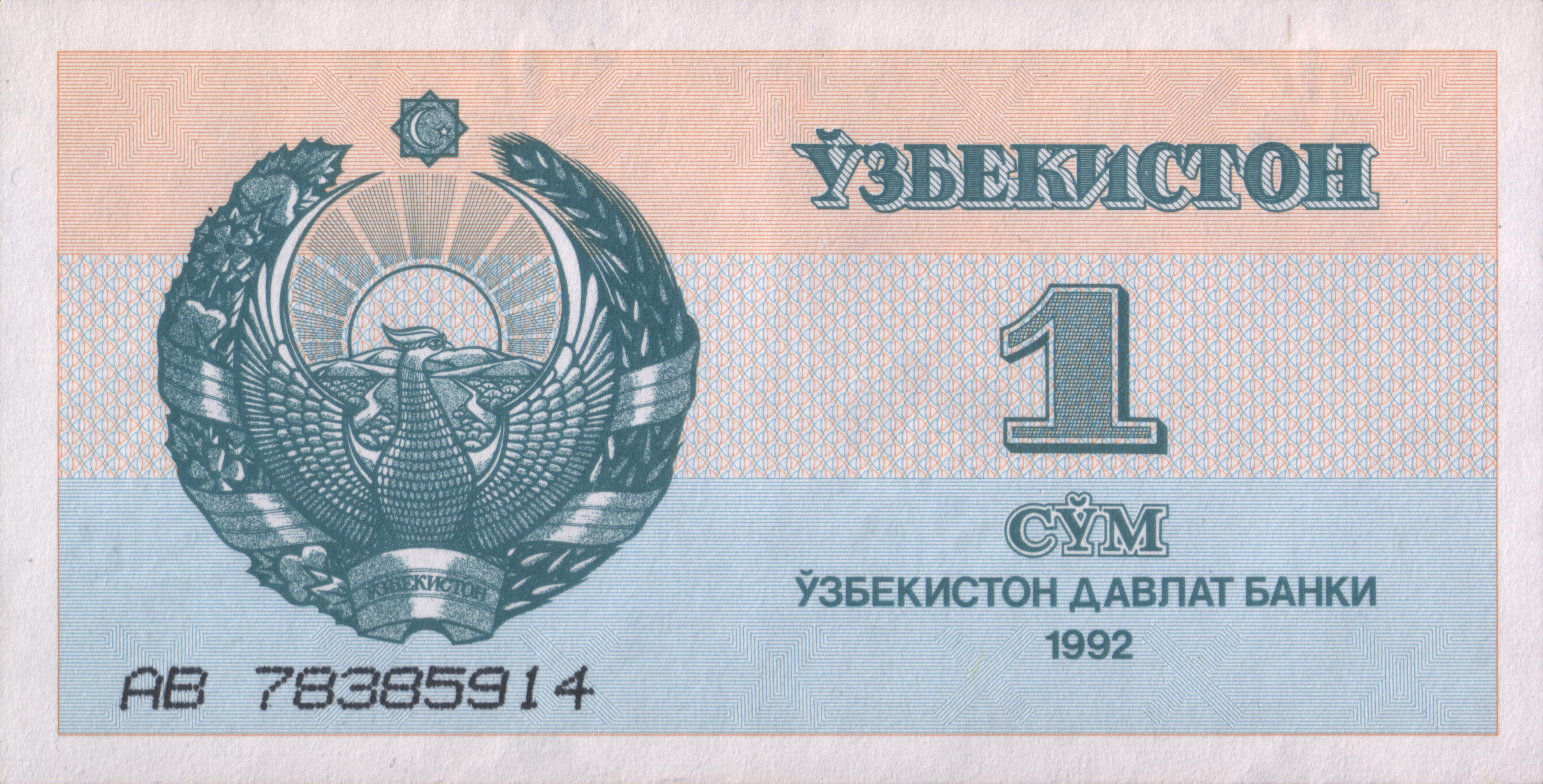 1 sum of Uzbekistan (1992)